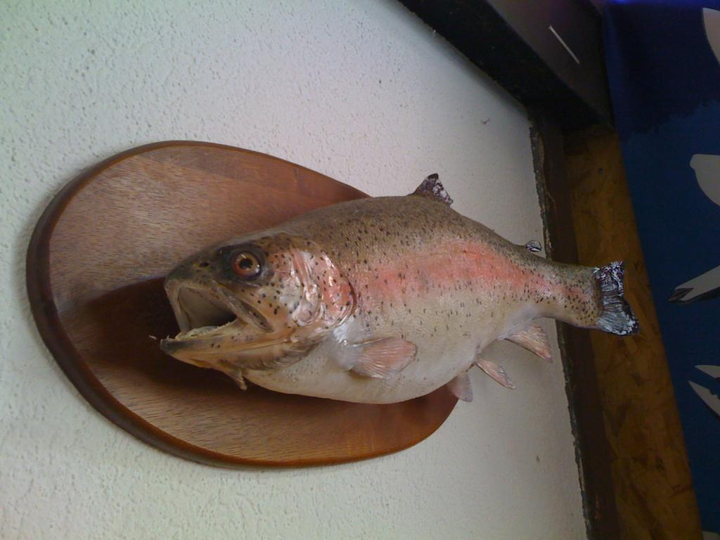 Fish from Saint-Léonard underground lake